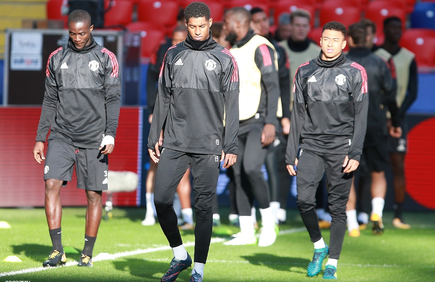 Marcus Rashford, Eric Bertrand Bailly, Jesse Lingard